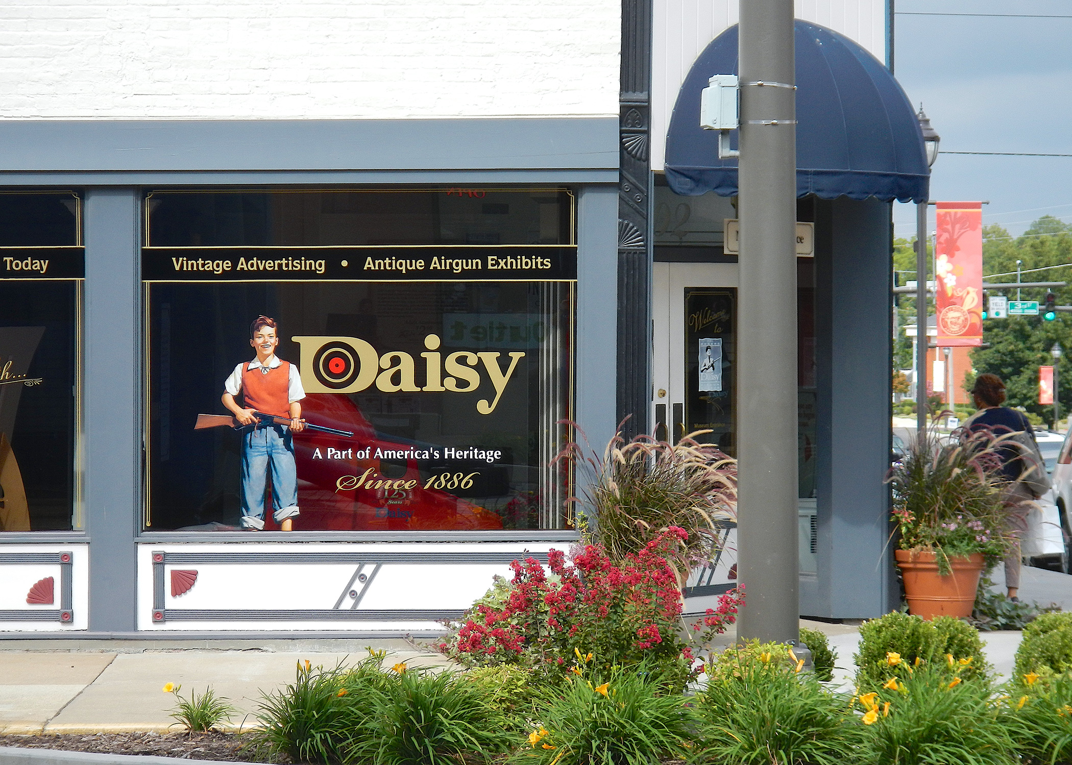 The Daisy Airgun museum in downtown Rogers, AR. Taken during the 2012 Frisco Festival.